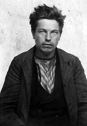 Anton Nilsson when he was arrested after the bombing